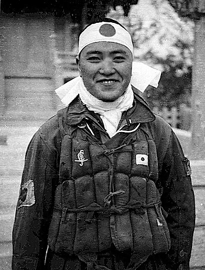 Kamikaze pilot Ensign Kiyoshi Ogawa, who damaged the carrier USS Bunker Hill during Operation Kikusui No. 6 on May 11th, 1945.